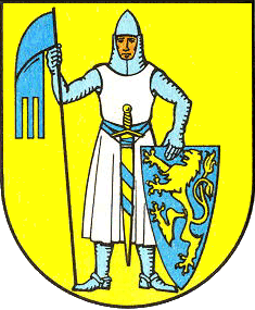 Coat of Arms of Laucha